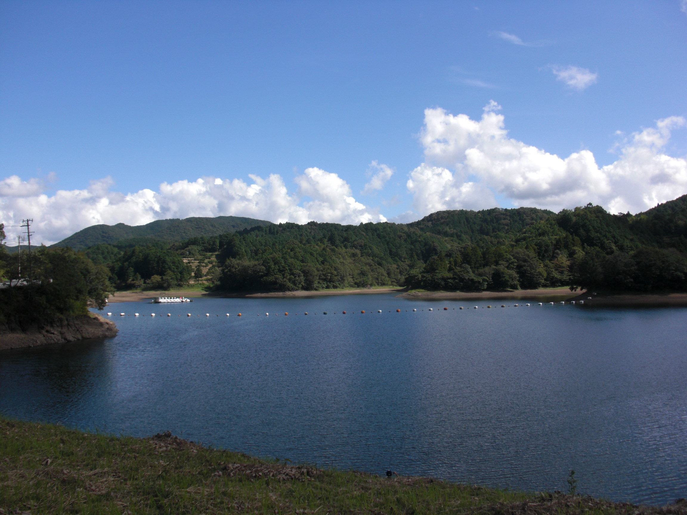 This is the Gokatsura pond in Taki, Mie, Japan. This is the largest pond in Mie prefecture.